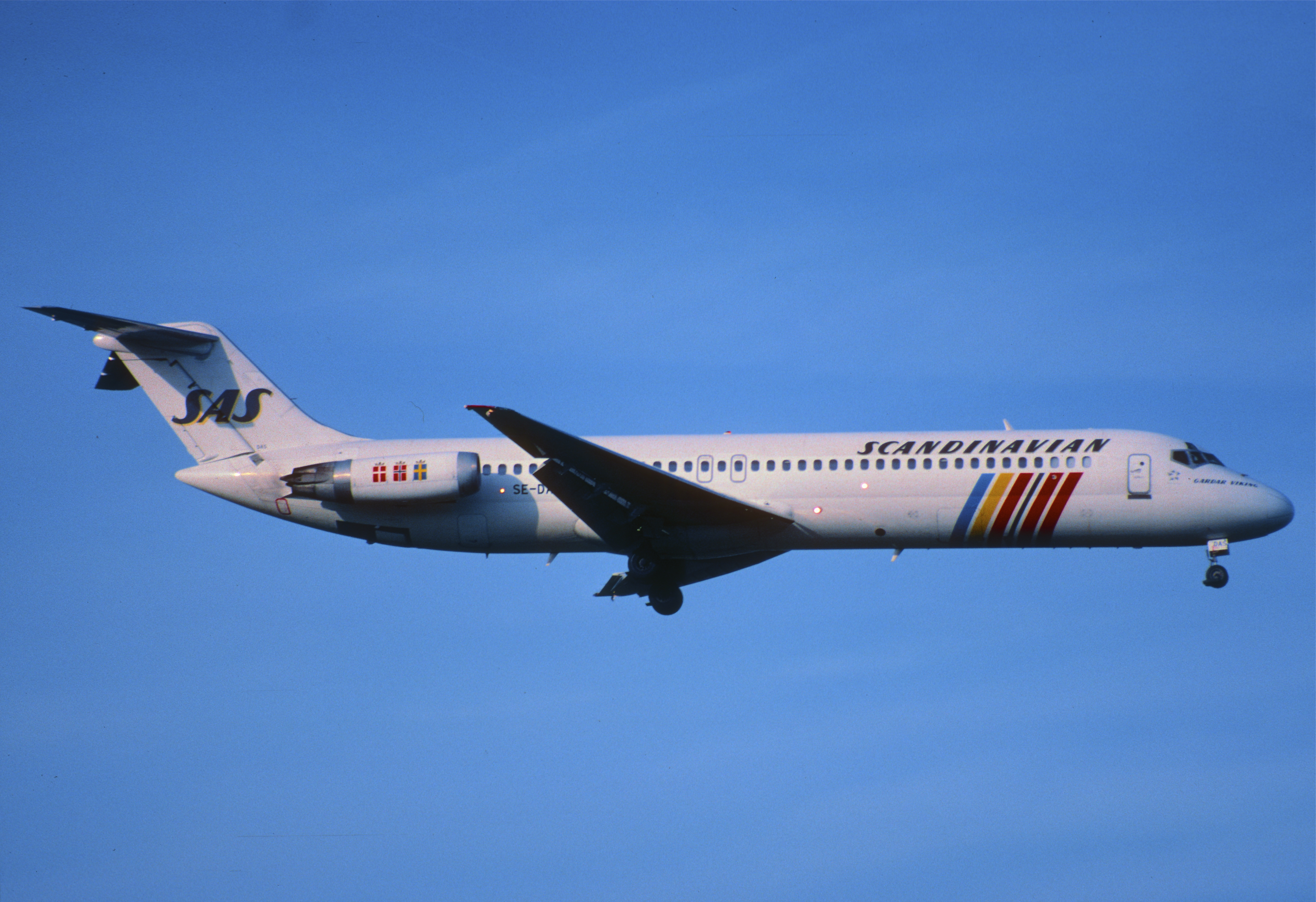 129bs - Scandinavian Airlines DC-9-41; SE-DAS@ZRH;28.04.2001